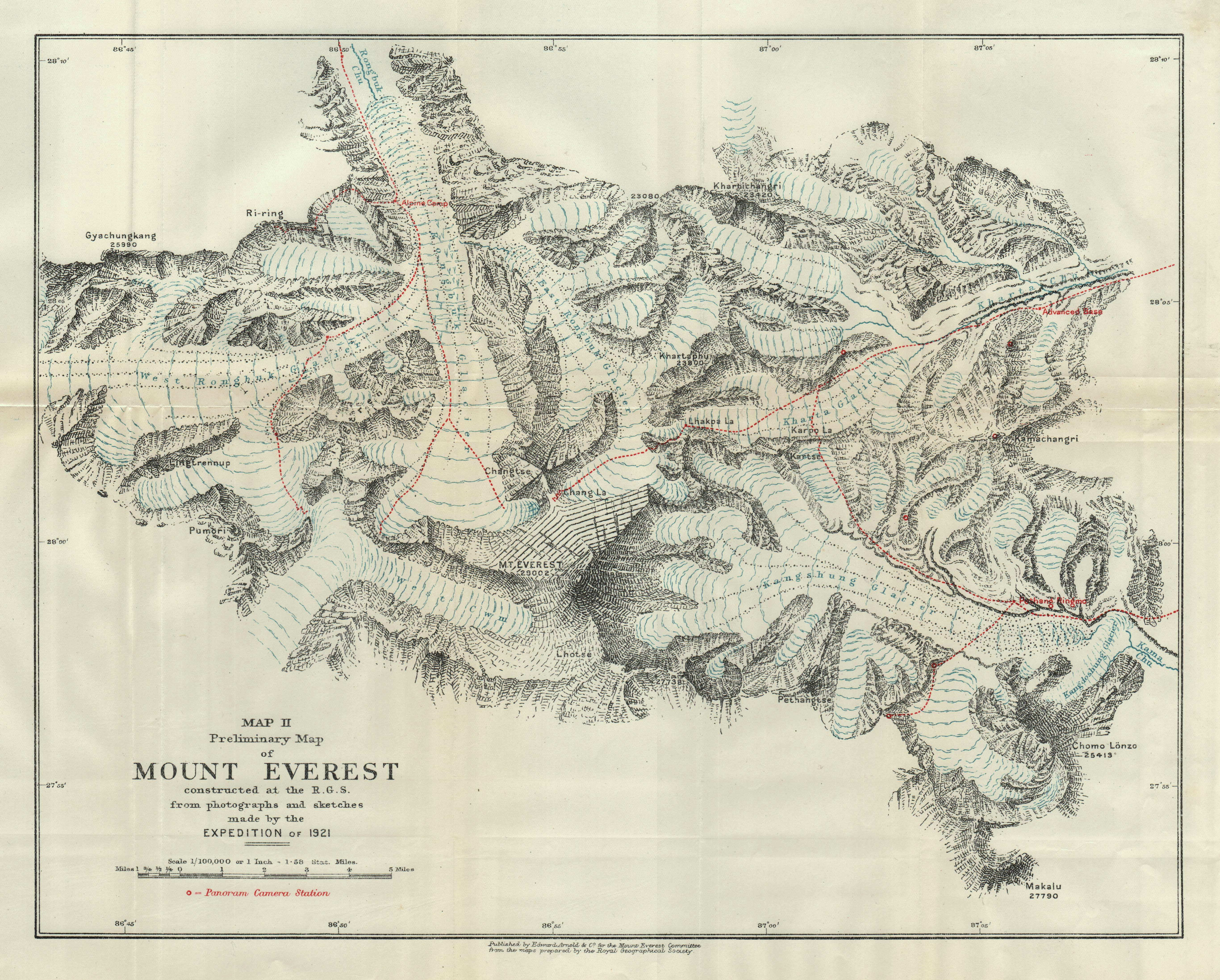 Map II from Howard-Bury, C. K. (1922). Mount Everest the Reconnaissance, 1921 (1 ed.). New York, Longman & Green